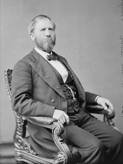 William Terry, Representative of Virginia. Lt. In 4th Va. Inf. CSA, Colonel in 1864, Brig Gen May 20, 1864, was last Commander of the famous "Stonewall Jackson" Brigade of the Confederate Army.